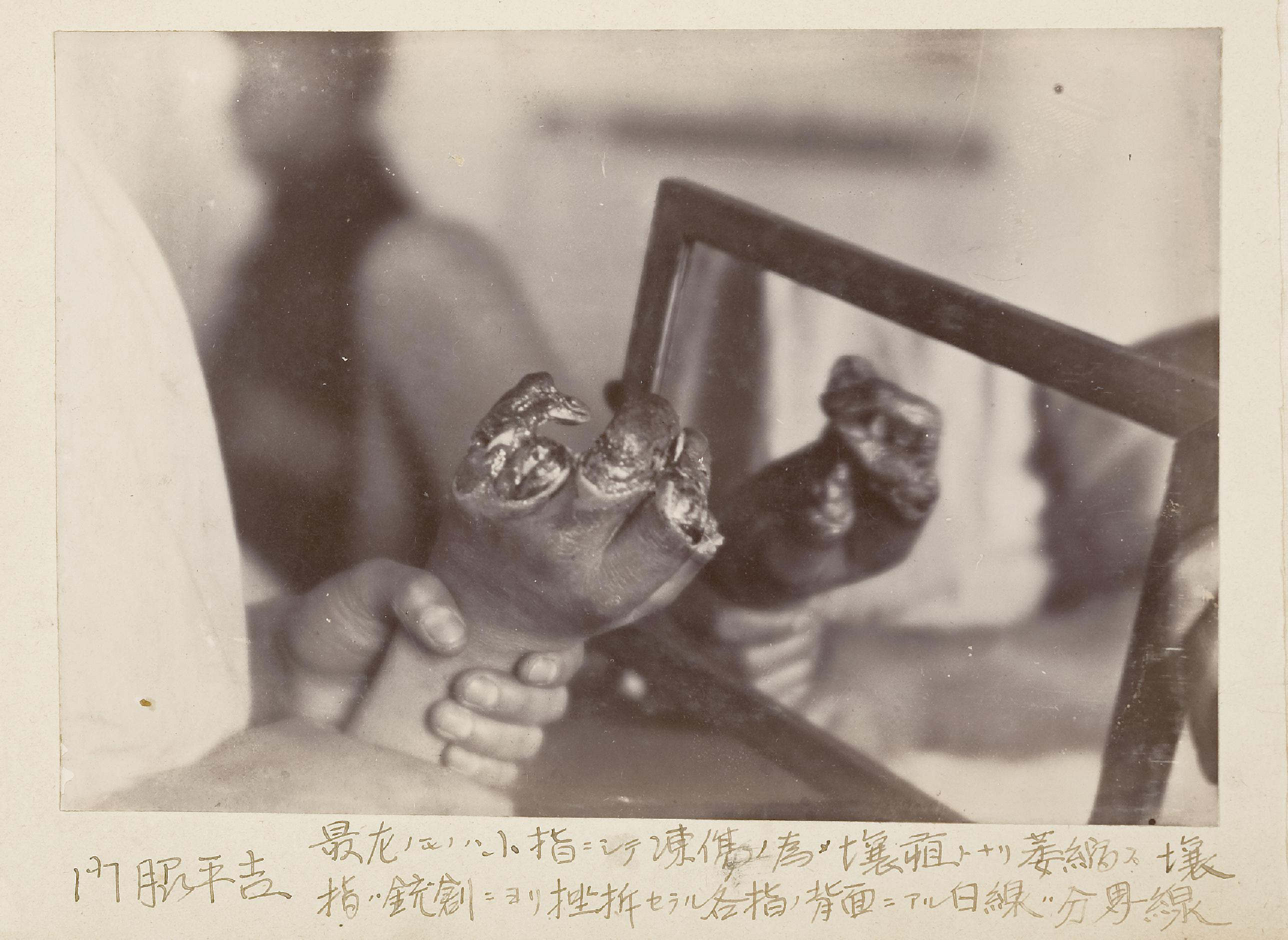 Appears In: Russo-Japanese War photographic album. Image Description: A photograph showing a hand that suffered severe frostbite and gangrene, with a missing index finger and missing skin from other fingers. Russo-Japanese War photographic album. NLM Hidden treasure p. 193